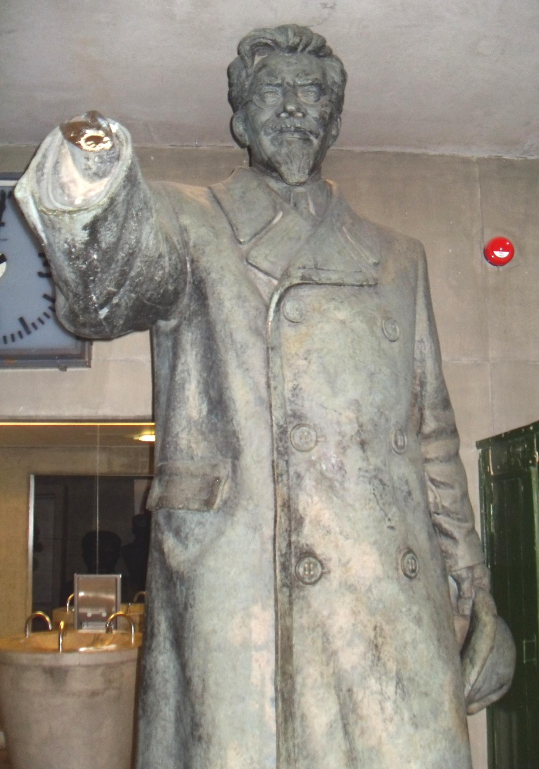 Statue of Mikhail Ivanovich Kalinin at the Occupations Museum of Tallinn (Toompea 8), Estonia. Mikhail Kalinin was a Bolshevik revolutionary and the nominal head of state of the Soviet Union from 1919 to 1946. From 1926 he was a member of the Politburo of the Communist Party of the Soviet Union, where he was one of the inner circle of party leaders around Soviet leader Joseph Stalin. Kalinin's monument was located at Tallinn's Flied of Towers, where it was erected in 1950.